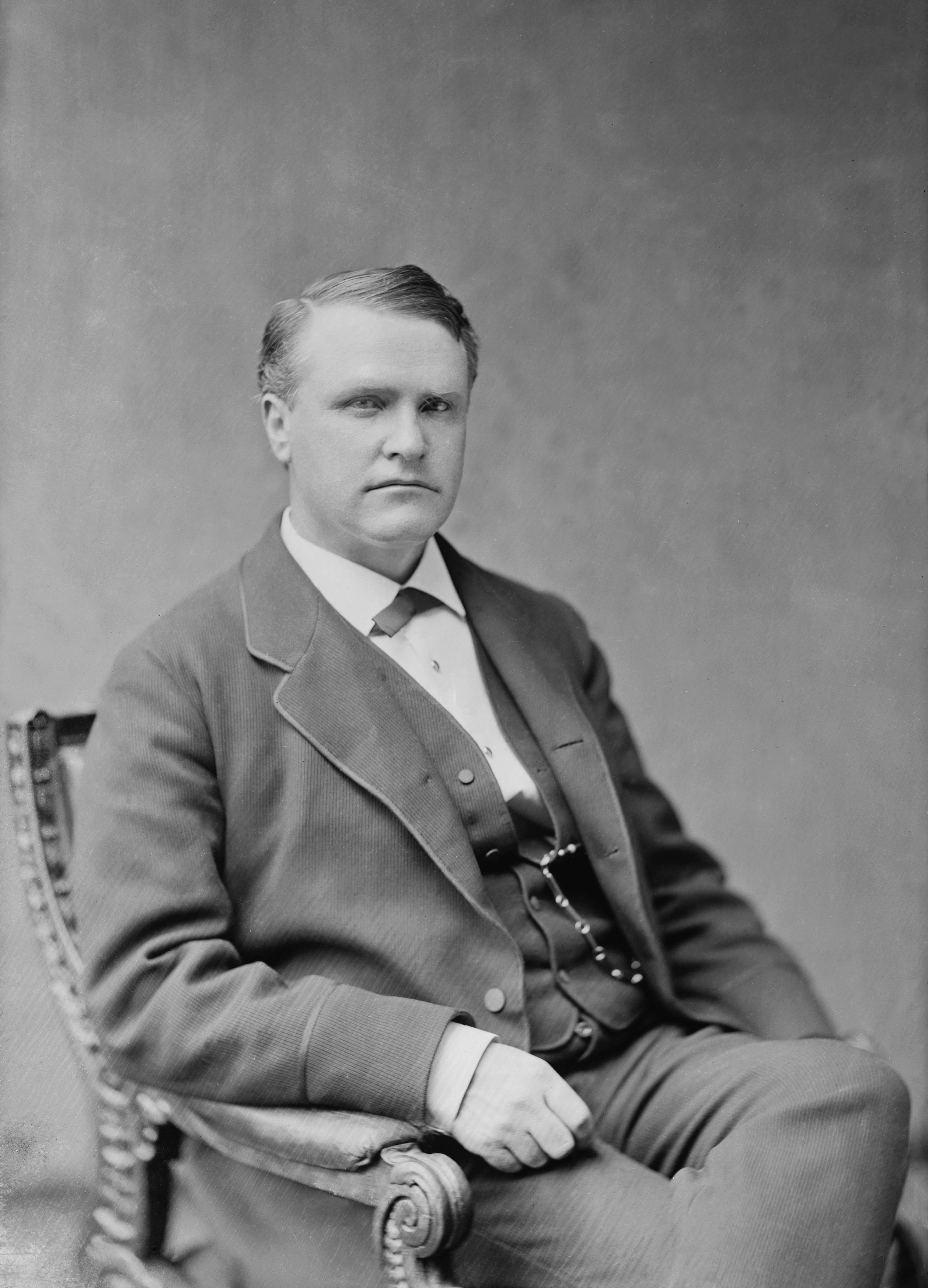 Stephen Benton Elkins, former Secretary of War., crop of original file, restored, image darkened and extensive clone tool work to remove damage from negative.